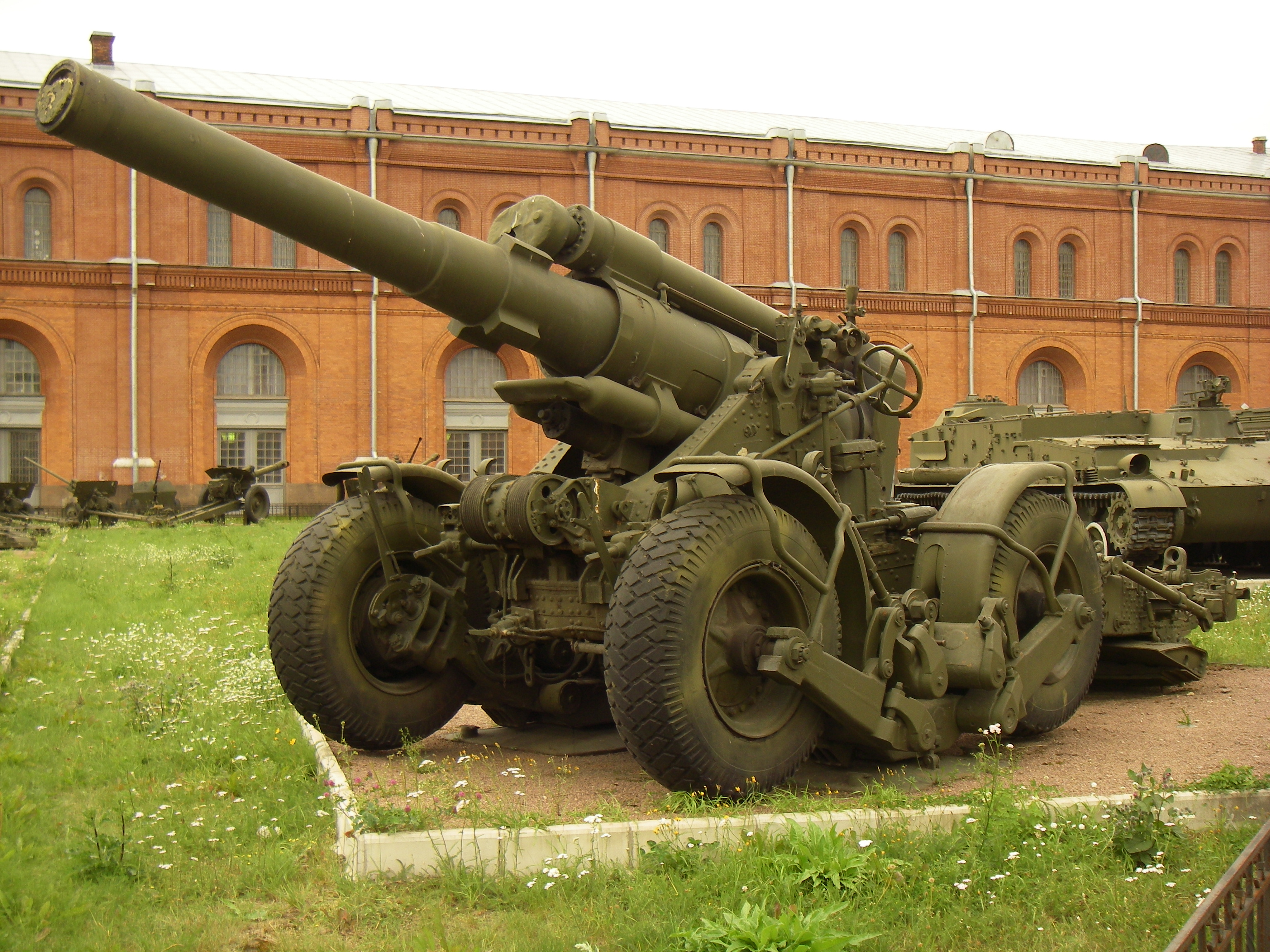 203-mm howitzer B-4M in Saint Petersburg Artillery museum